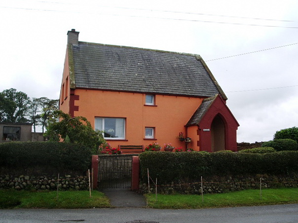 Threeways, Langrigg, Cumbria, seen from the northeast. The Gothic Revival porch suggests that the cottage may formerly have been a chapel or school.